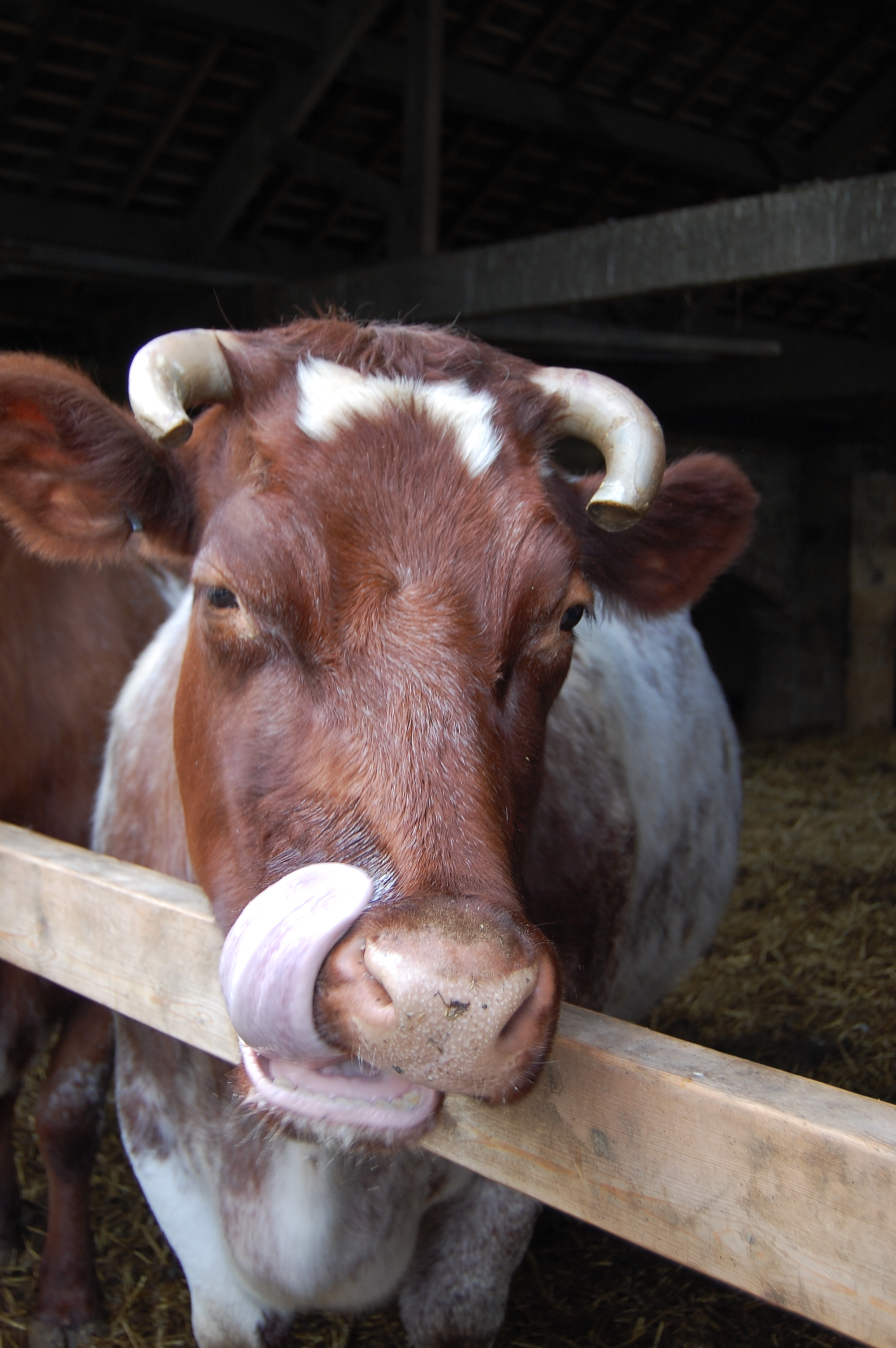 Beamish Museum, County Durham, England. Cow in Home Farm.